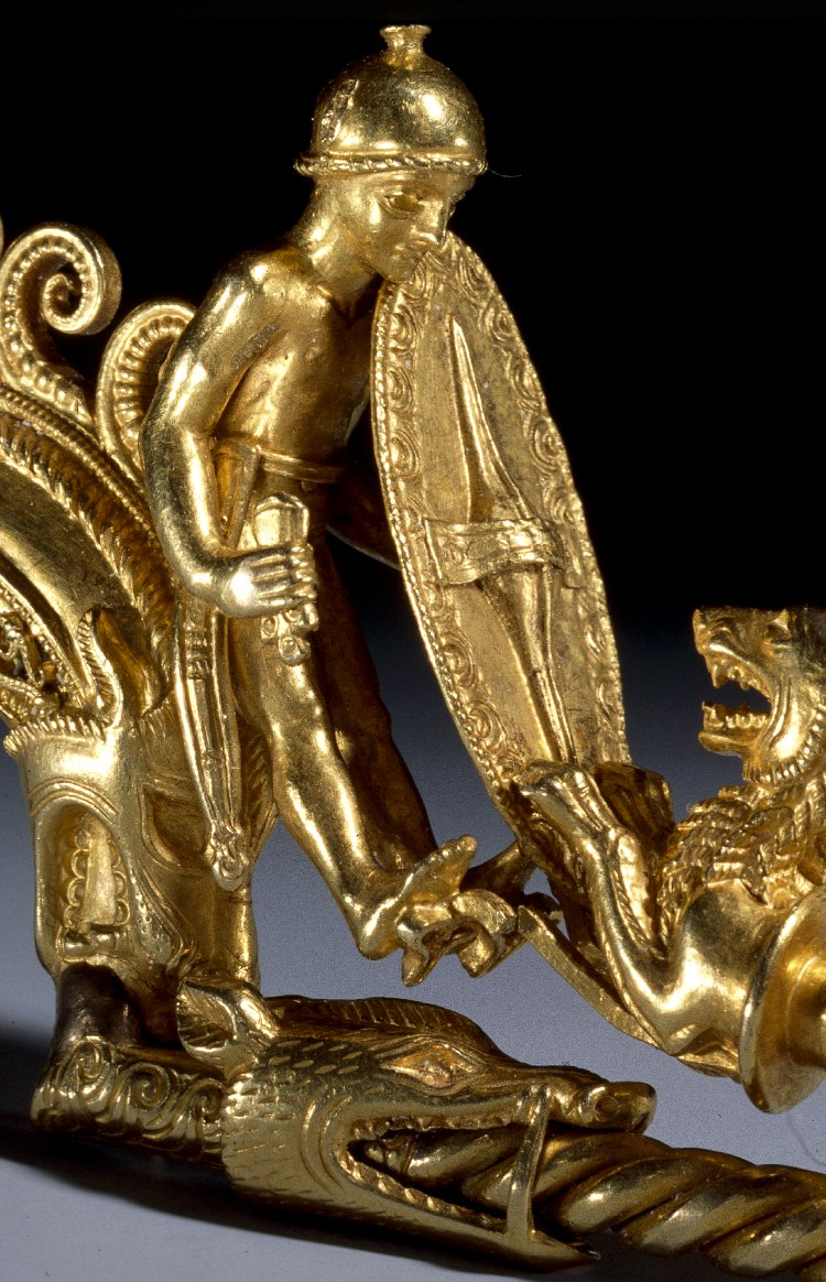 Museum number 2001,0501.1 Description Detail: Other Gold fibula, of long-footed form decorated with the figure of a naked warrior, wearing a Celtic helmet, with scabbard suspended from his waist and carrying a sword (scabbard and pommel are both of La Tene type), with another figure of a hunting dog jumping up to him. The eyes of both figures were originally inlaid with enamel. The arched bow has eight curls and the side panels are elaborated with running spirals and loops, also originally inlaid with blue enamel. Each end of the brooch is terminated by a dog's head. The hinge or spring and pin are now lost. The long foot of the fibula comprises two thick wires, twisted together and terminated with another dog's head, jaws agape and ears raised. The brooch was probably made by a Greek craftsman active on the Iberian Peninsular.